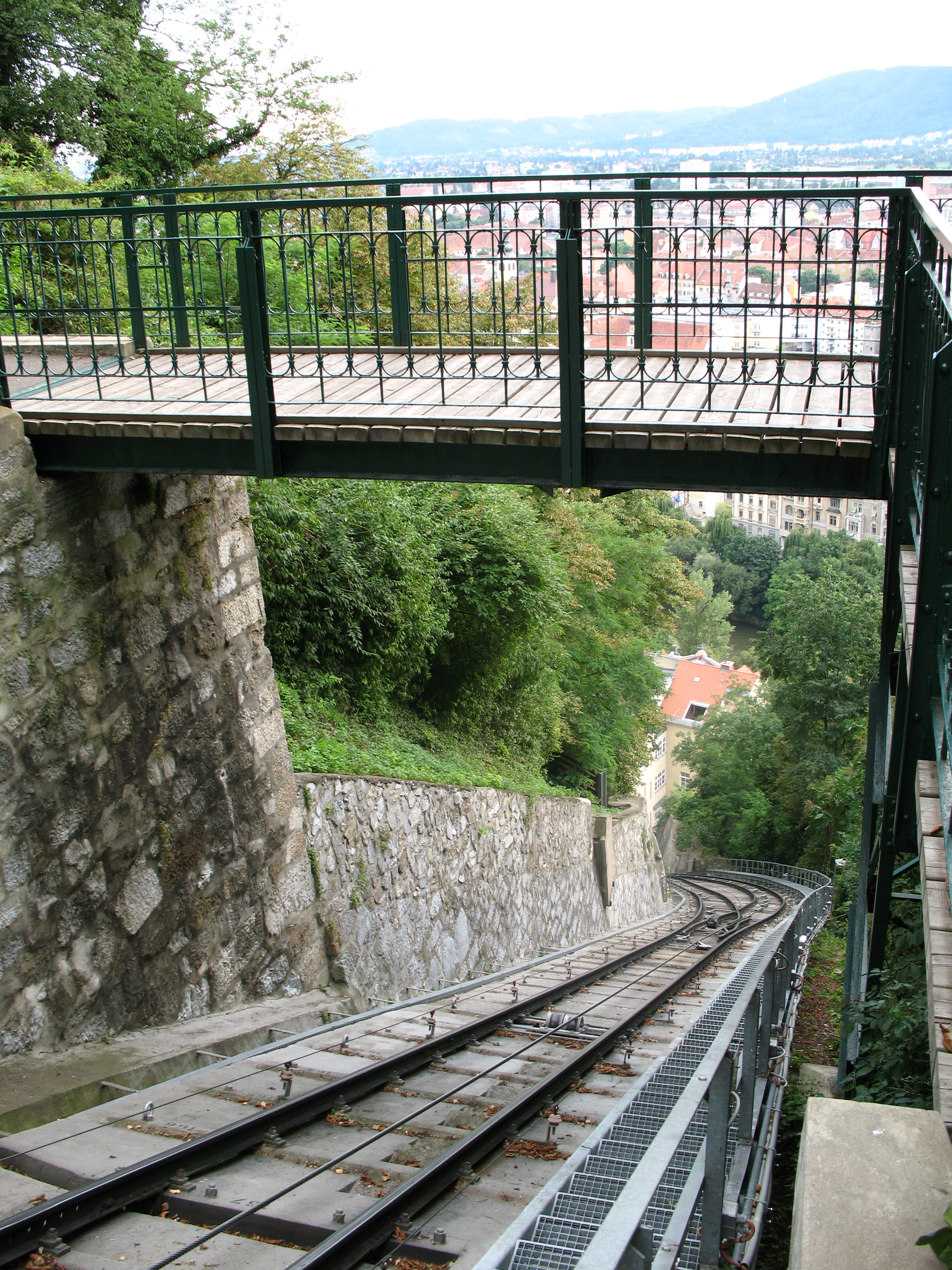 Castle Hill Funicular, Graz, Austria